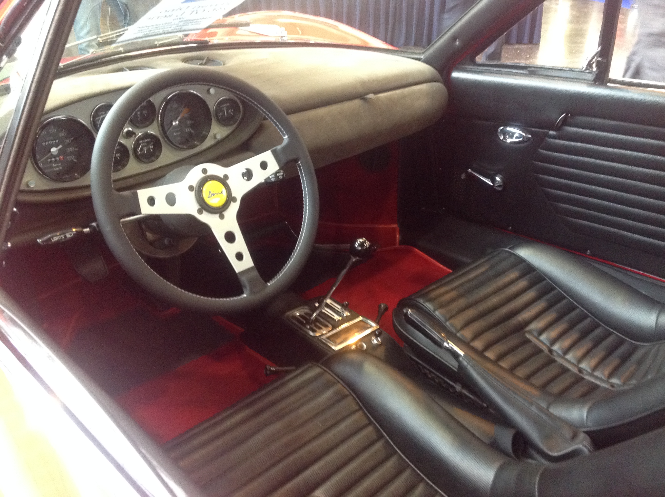 One of my all-time favourite cars. I know I'll never afford one....